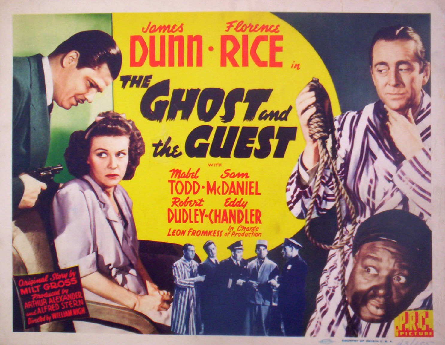 Lobby card from the 1943 film The Ghost and the Guest.